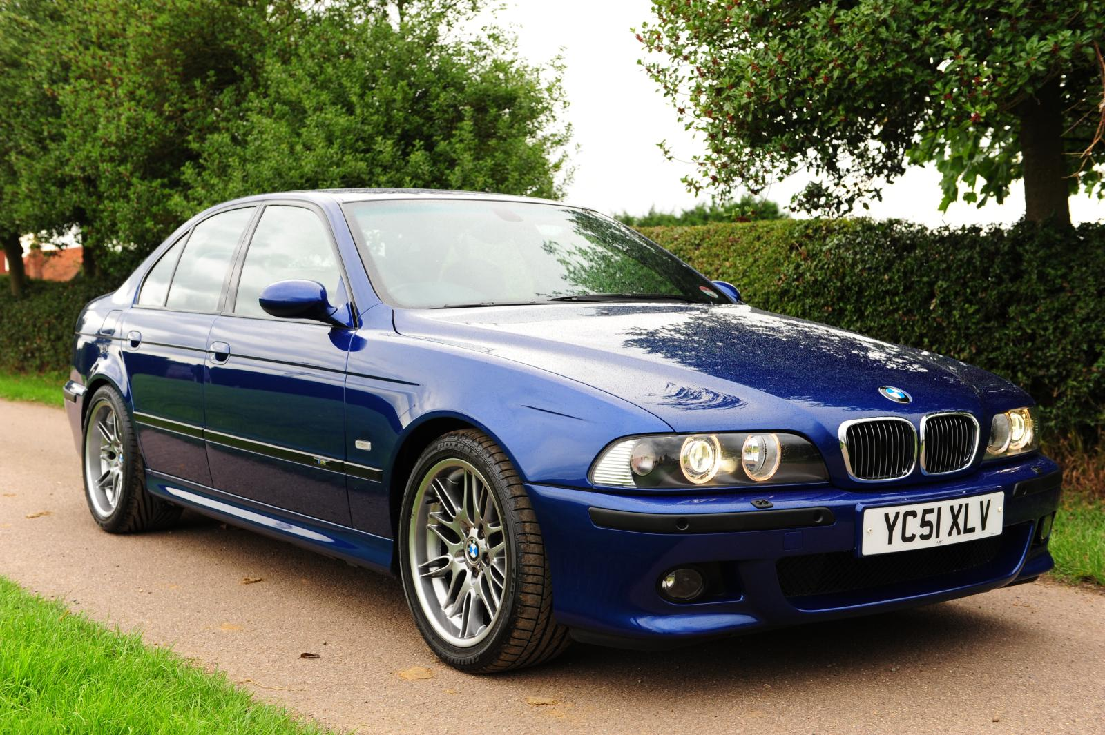 Photo of blue BMW M5 E39.